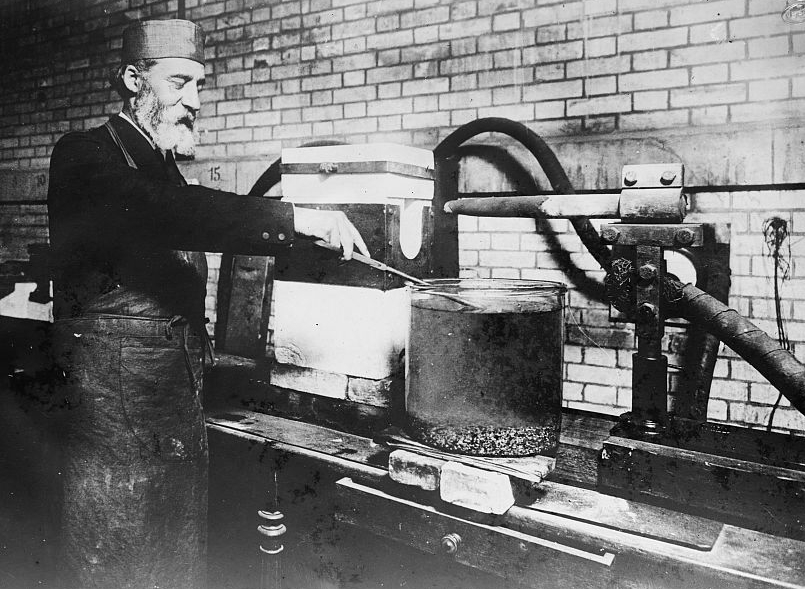 French chemist Henri Moissan (1852-1907) using a Moissan-Chaplet electric arc furnace in his attempt to synthesize diamonds.